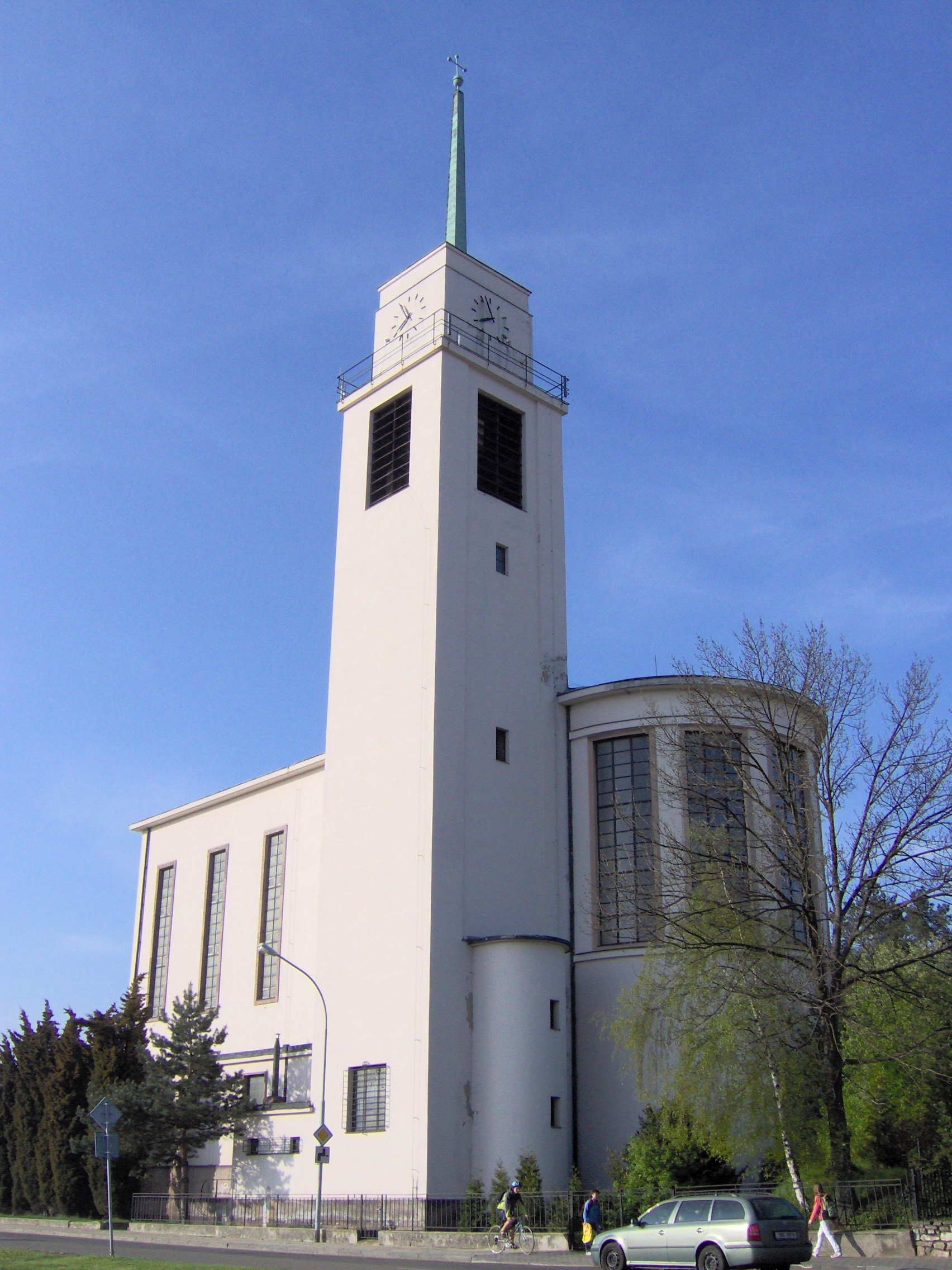 Saint Augustine church, Brno, Czech Republic